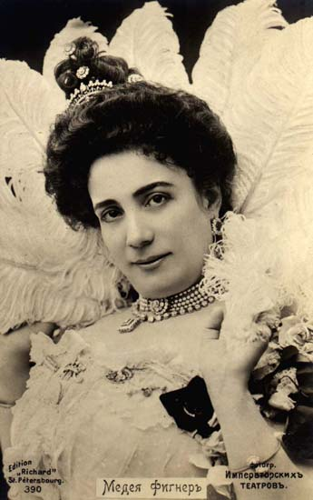 Photo of russian and italian opera singer Medea Mei Figner (1860-1952)